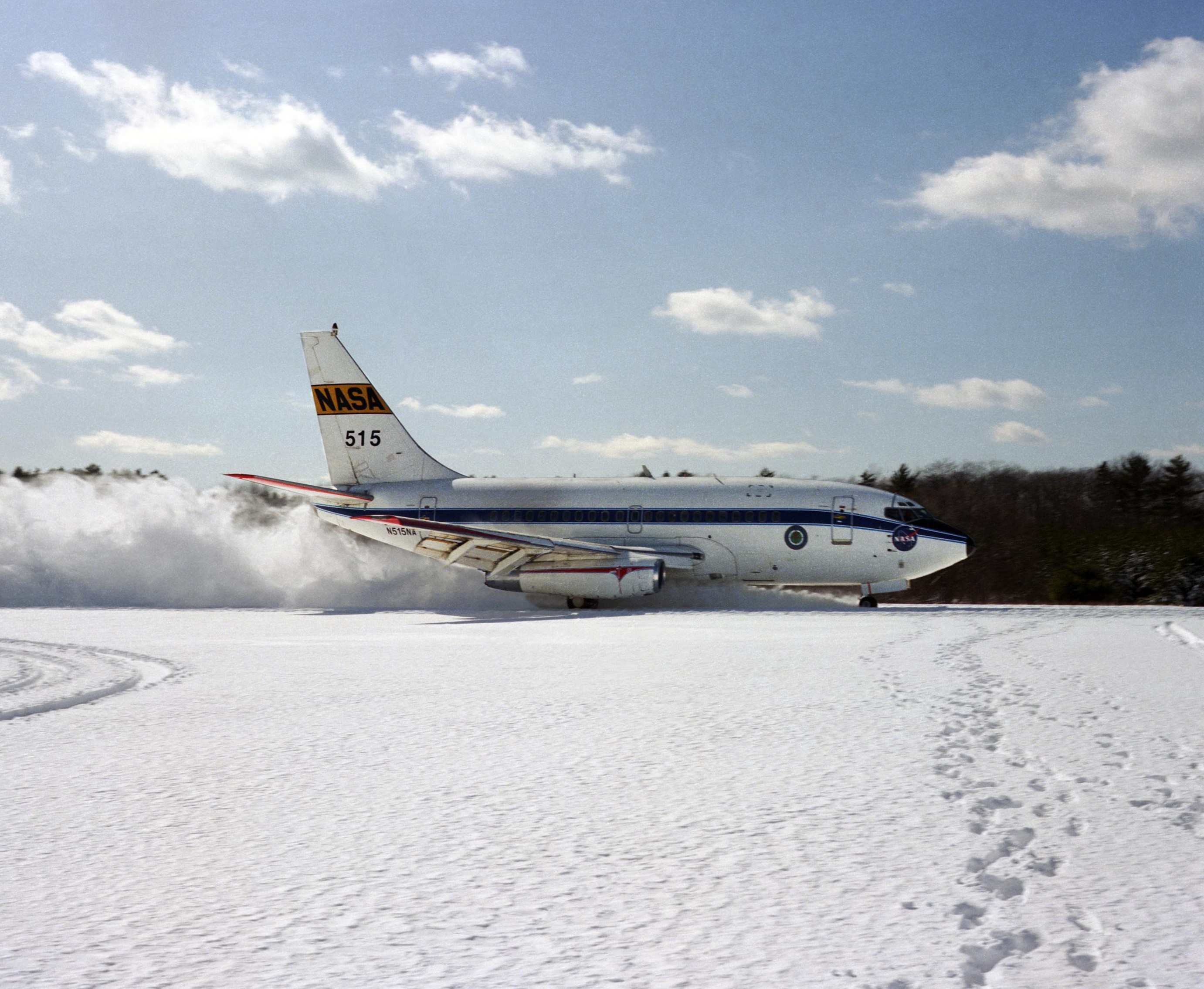 Boeing 737-100 in NASA testing, March 11, 1985. NASA B-737 test aircraft during braking test run on snow-covereed runway at Brunswick Naval Air Station, Maine. This test was part of joint NASA/FAA/Industry Winter Runway Friction Program which included FAA B-727 test aircraft and seven different ground friction measuring devices.